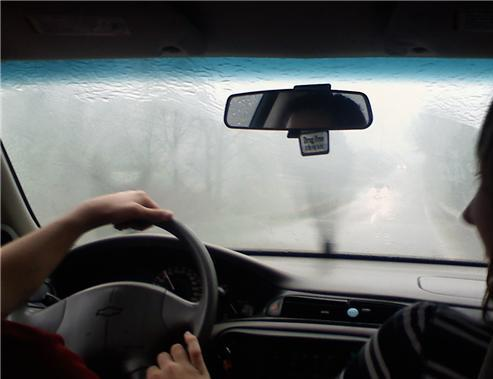 Rain on the windscreen of an automobile with windscreen wipers on.